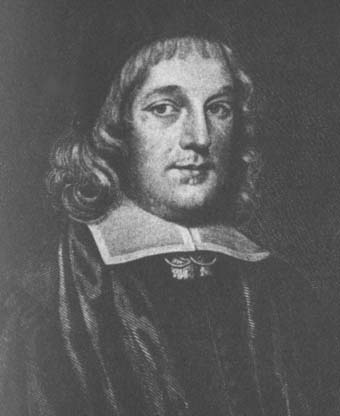 Thomas Manton (1620-1677)